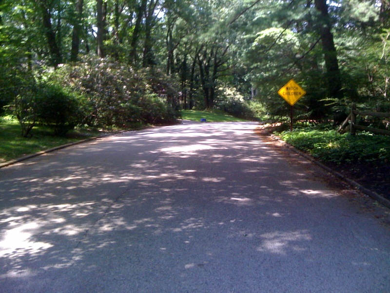 A picture of a neighborhood in Berwyn, PA.